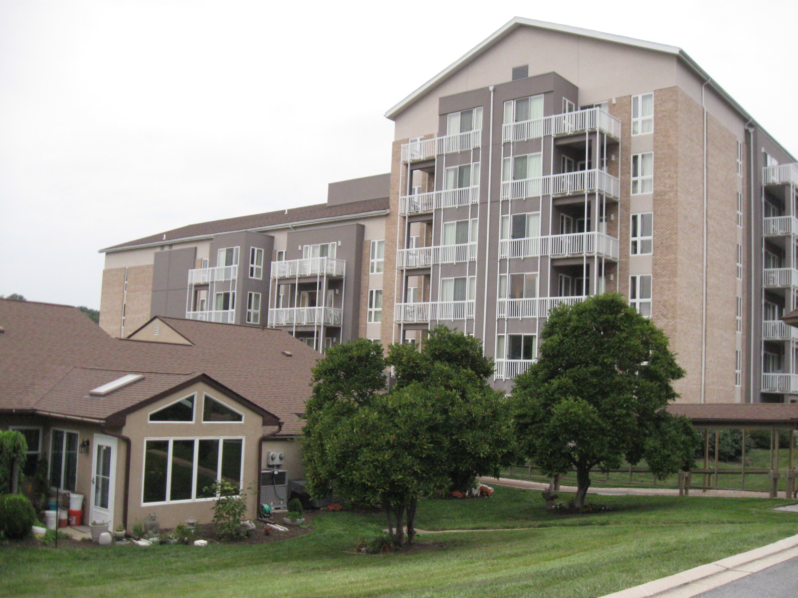 View of Fairhaven retirement community.